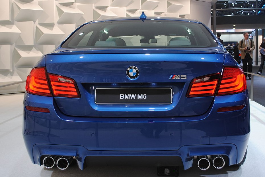 BMW-M5_at-Frankfurt-Motor-Show_2011, rear